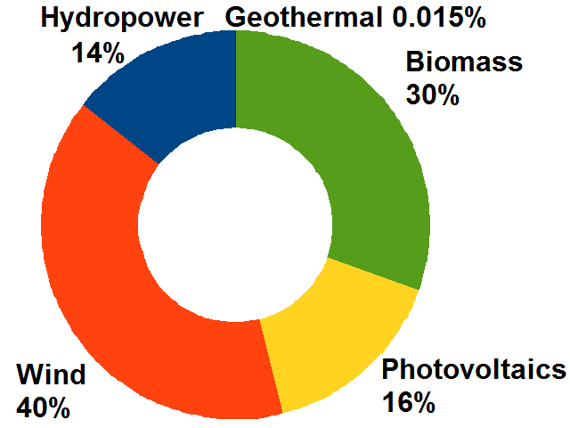 Germany percentage of renewable electricity by source in 2011. In all, 20.5% of electricity consumed in 2011 came from these renewable sources. Biomass includes the following: solid biomass 11.9 TWh, liquid biomass, vegetable oil included, 1.5 TWh, biogas, 17.5 TWh, sewage gas, 1.3 TWh, landfill gas, 0.6 TWh, and biogenic fraction of waste, 4.8 TWh. In all, 123.5 TWh was generated from renewable sources in 2011. Source:[1]